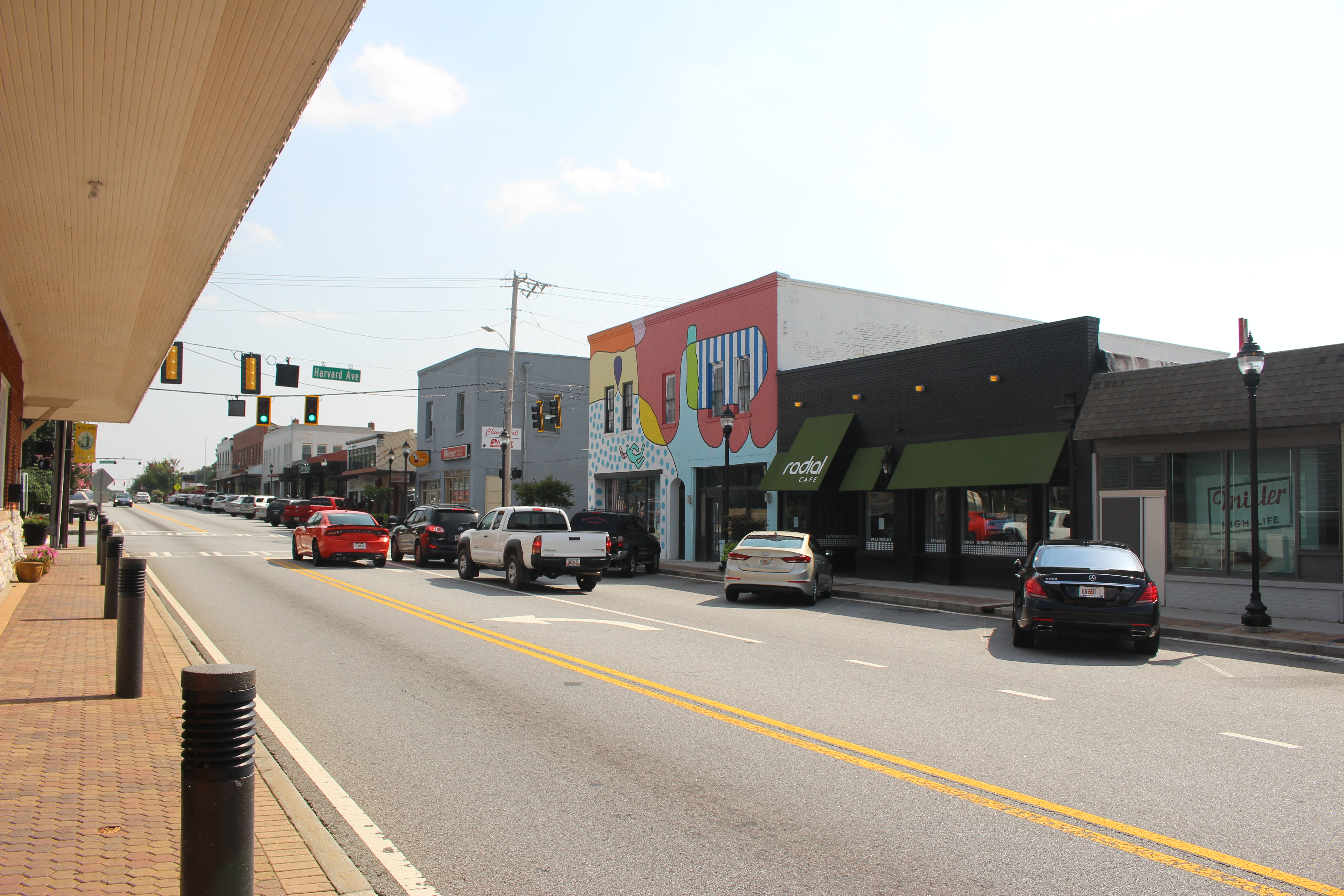 Downtown College Park, GA. Taken from the College Park Train Depot, looking down Main St toward Harvard Ave.